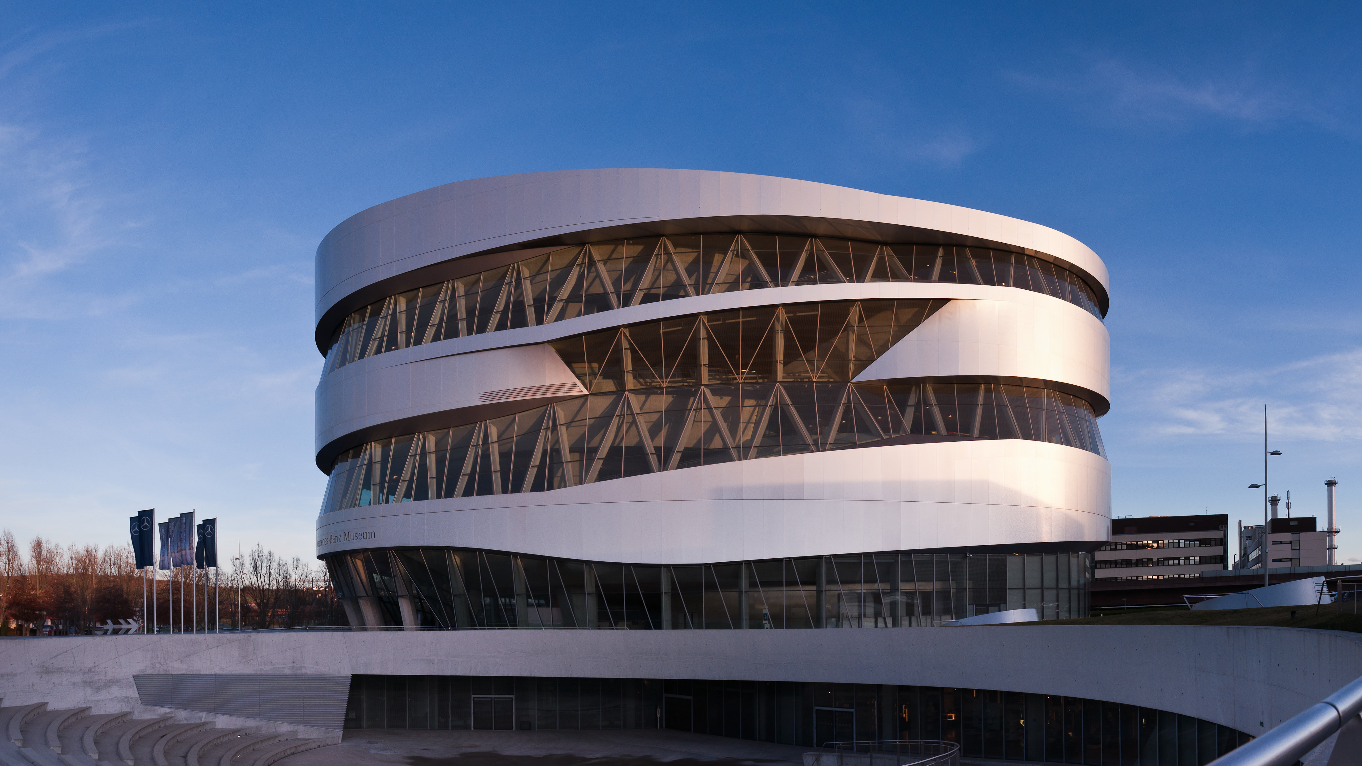 Mercedes-Benz Museum in Stuttgart, Germany, shortly before sunset.